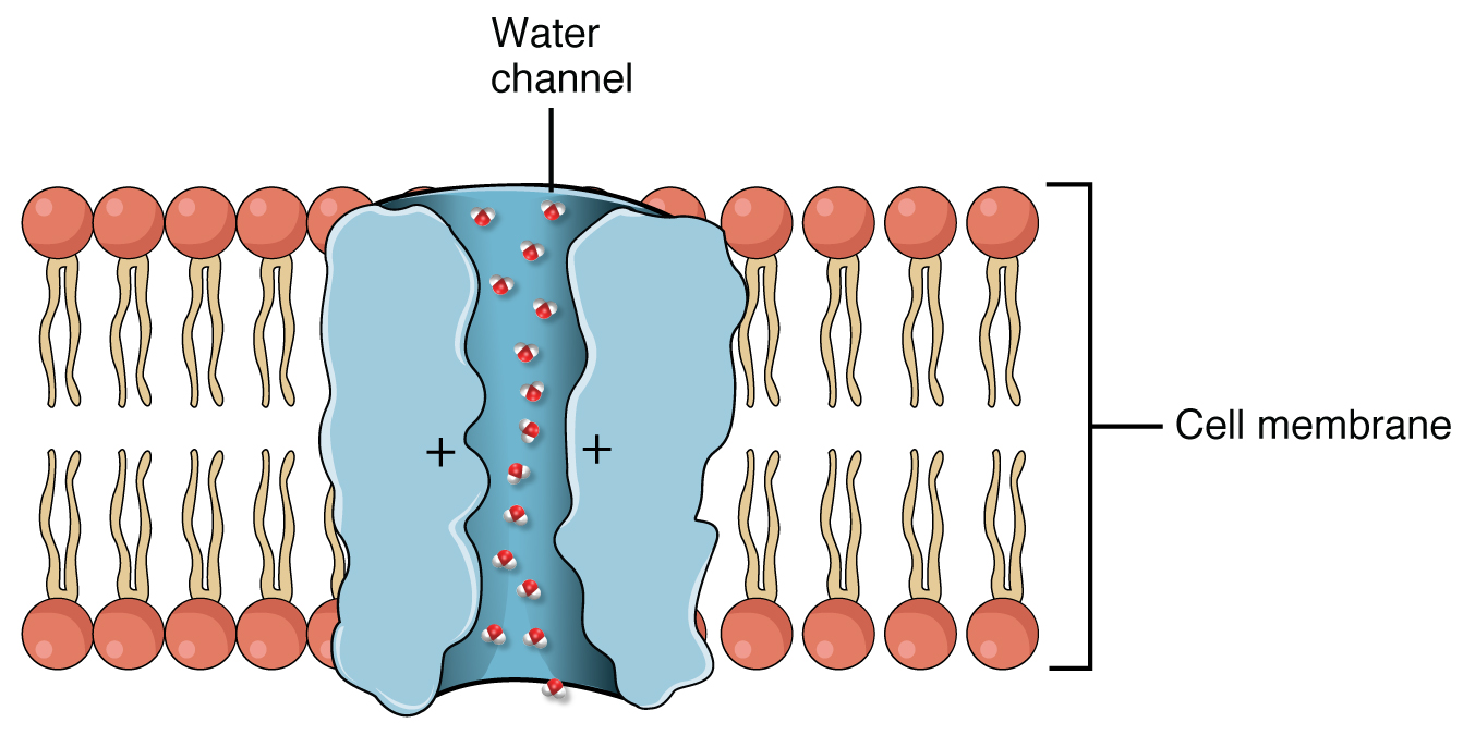 Illustration from Anatomy & Physiology, Connexions Web site. Jun 19, 2013.